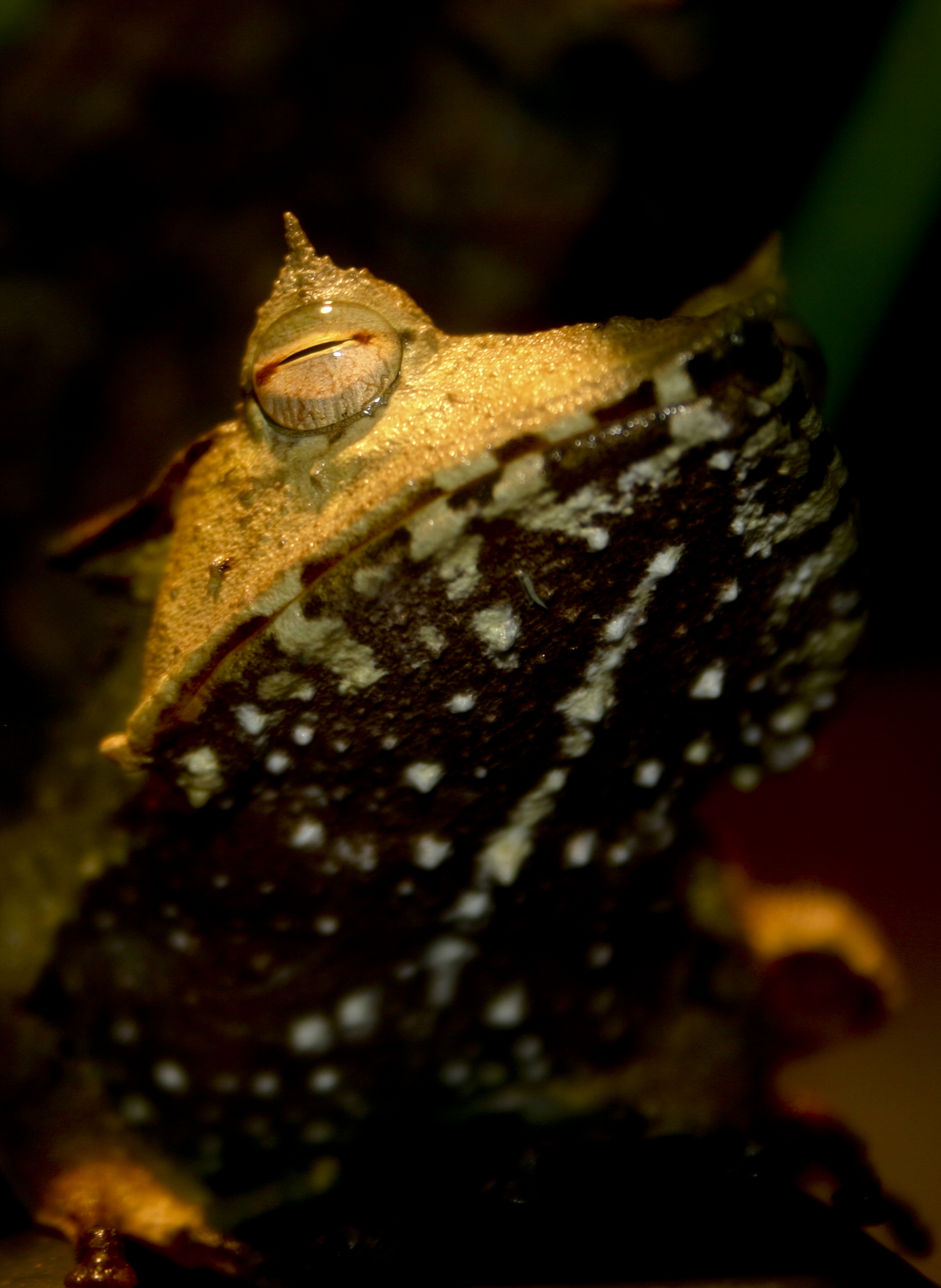 Hemiphractus fasciatus